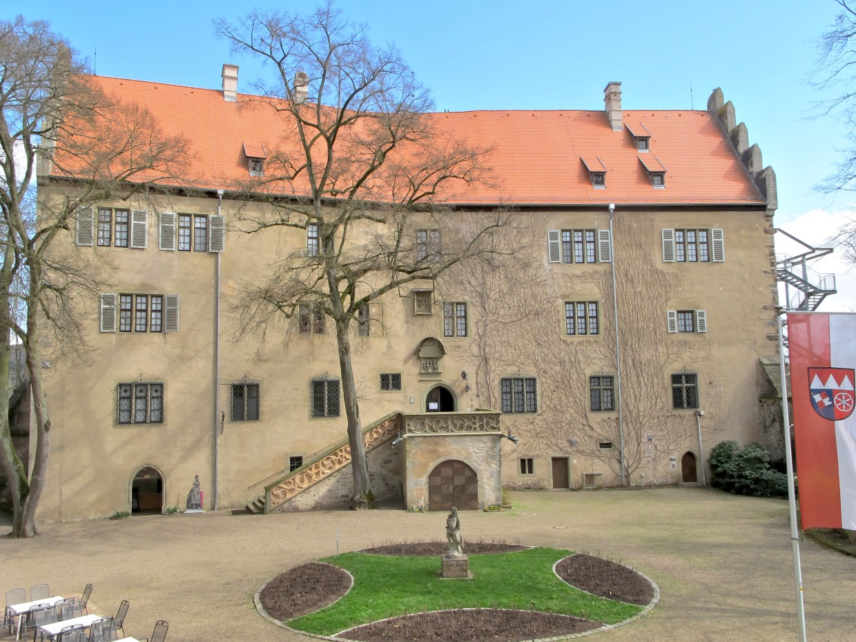 Village Aschach at Bad Bocklet, "Great Castle"